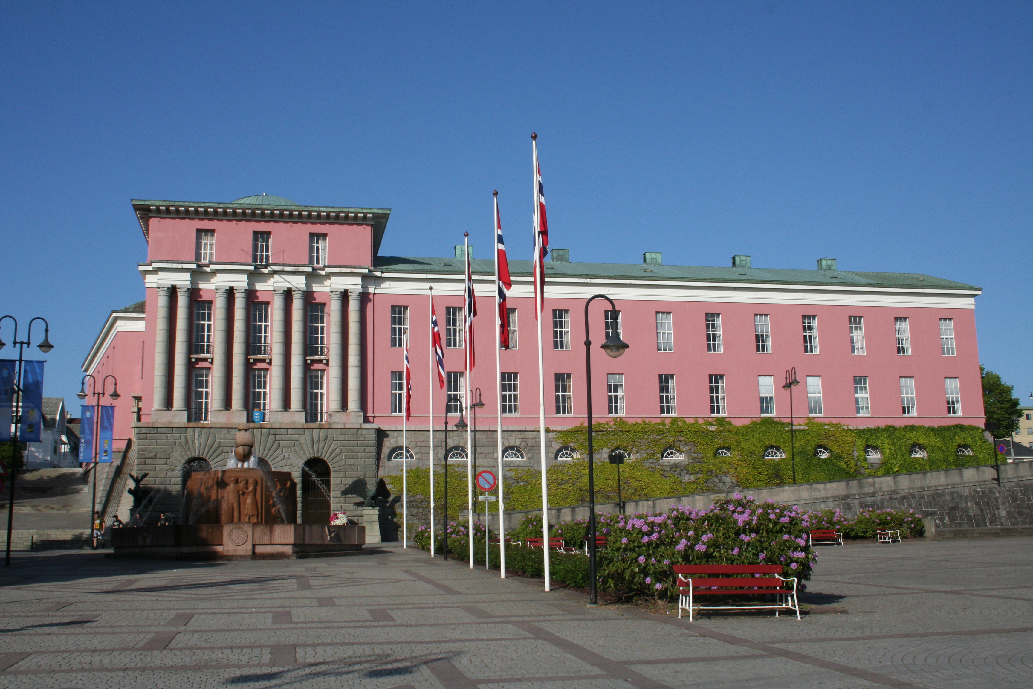 Haugesund townhouse